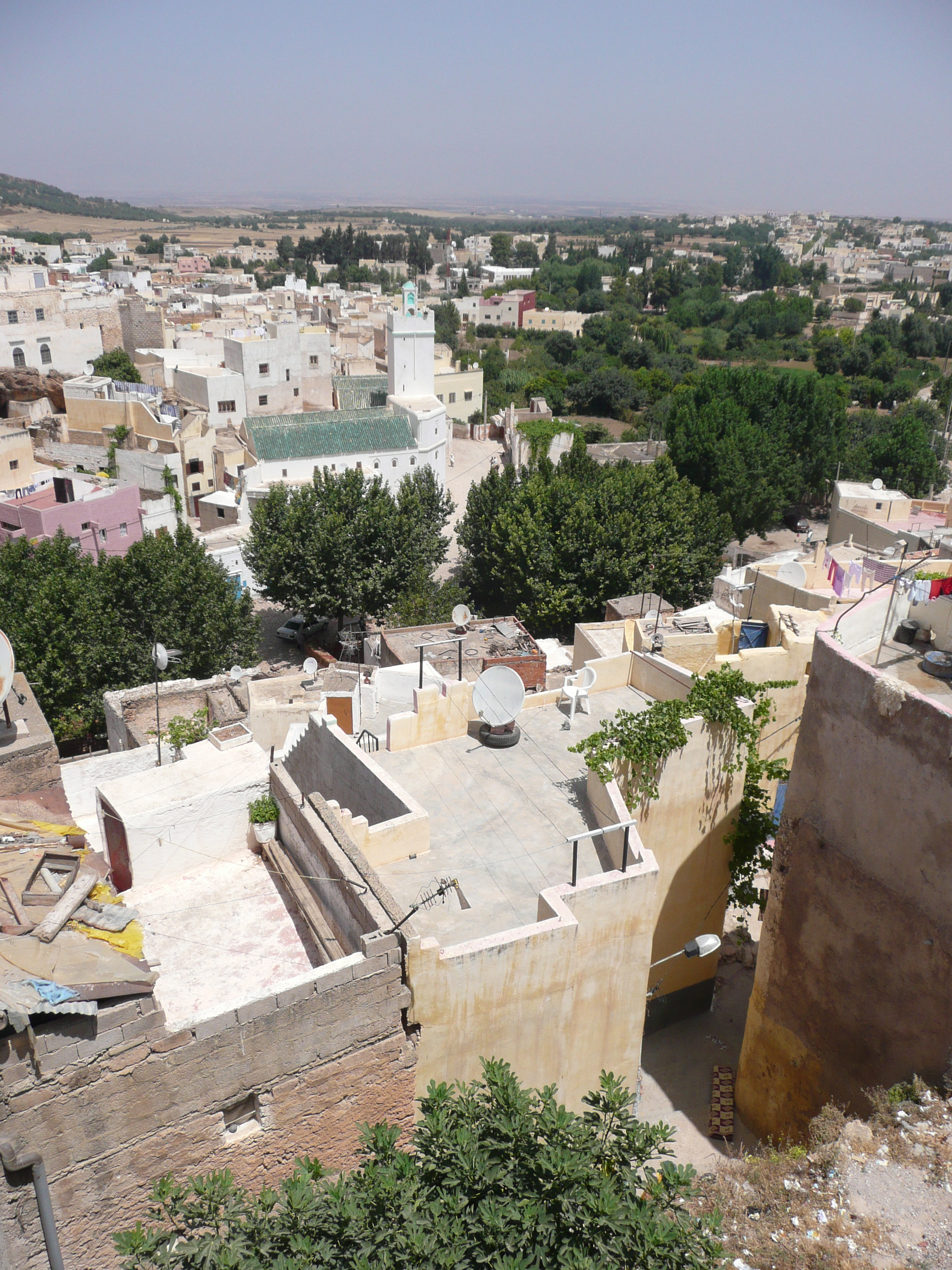 View of the town of Bhalil